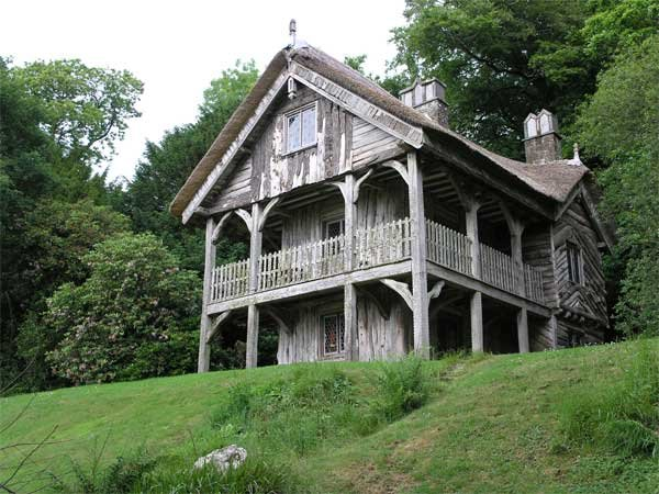 Swiss Cottage Endsleigh. The Swiss Cottage has been preserved by the Landmark Trust